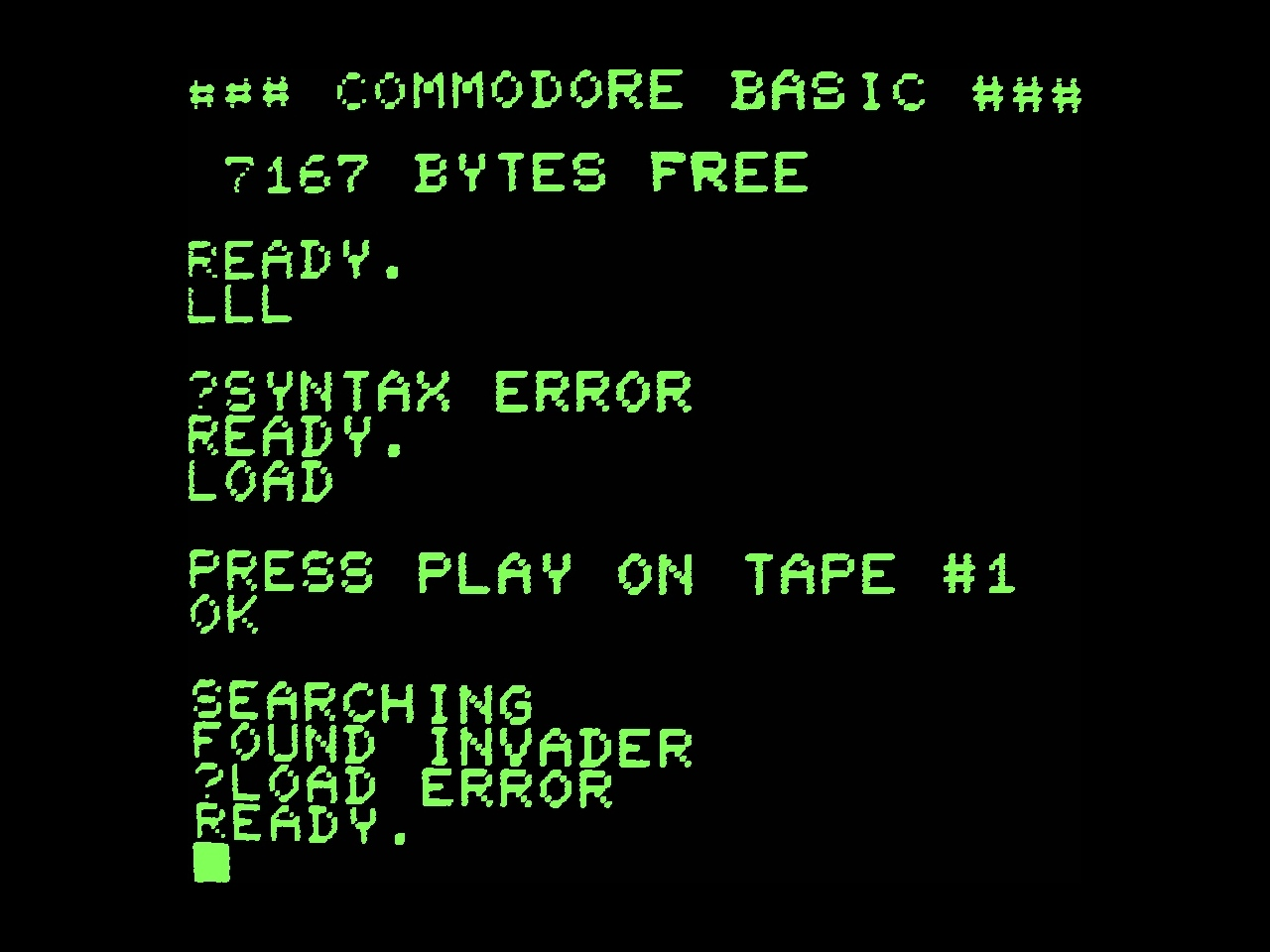 This is a real "screenshot" from a Commodore PET 2001. It doesn't have to boot and -- as you see -- the BASIC interpreter only takes about 800bytes in RAM ;-) The "L" key doesn't work good, so it took two runs to make it searching a program from the data tape. Unfortunately it still doesn't fully work again, so it won't load the world's first Space Invader implementation :-/